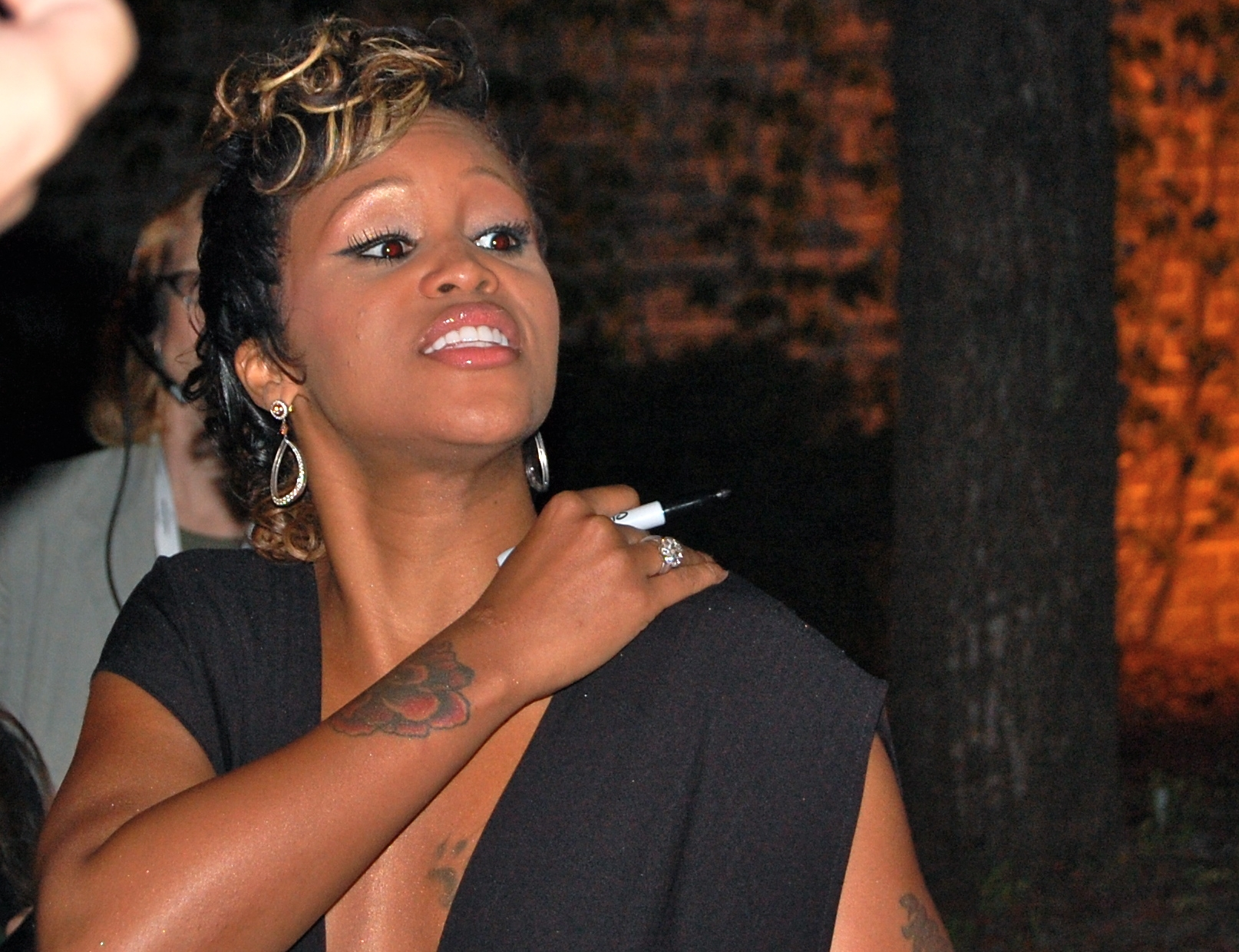 Whip It premiere - Ryerson Theatre - September 13, 2009